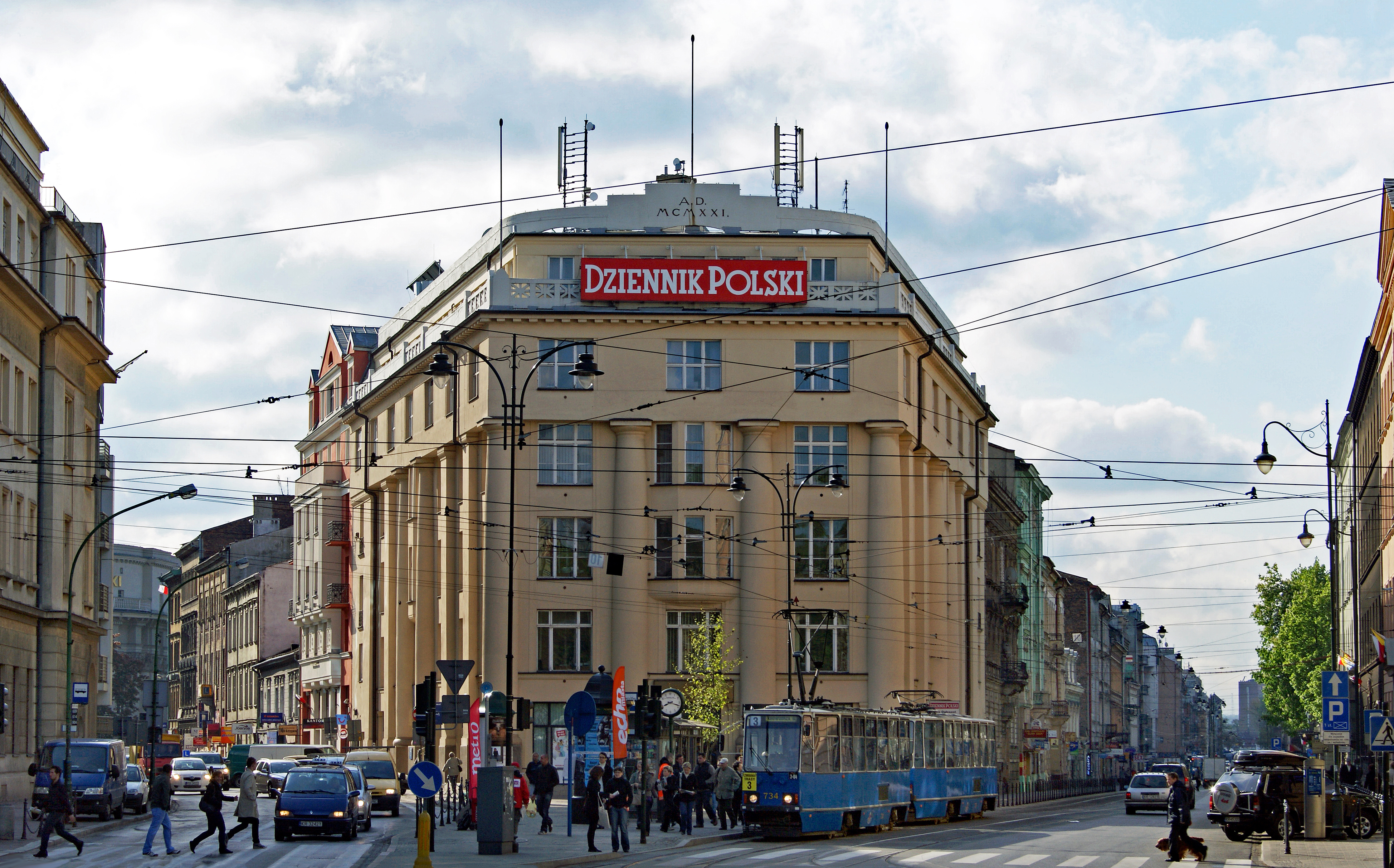 Palace of Press, 1 Wielopole street, Krakow, Poland